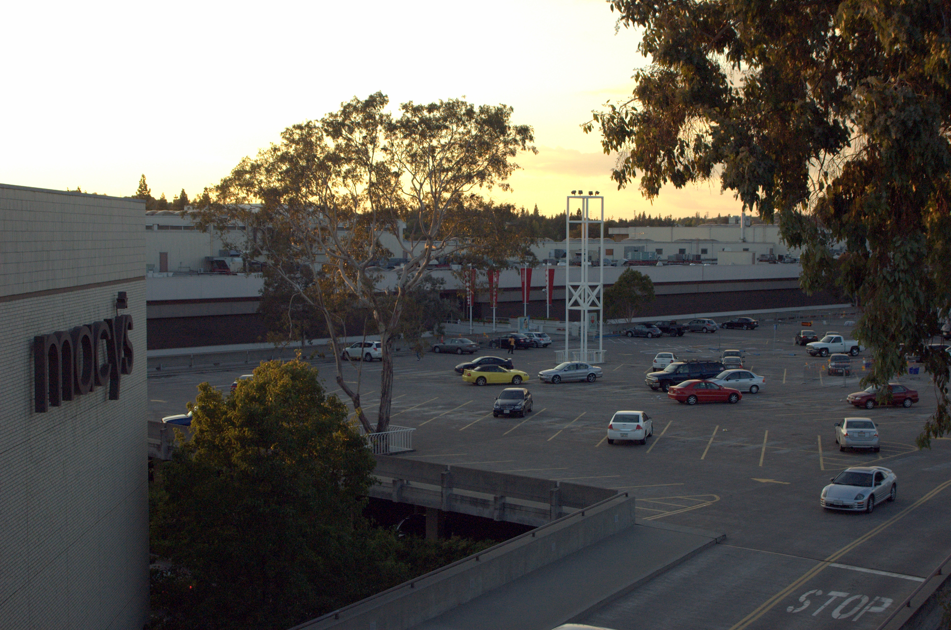 One of the East side Entrances to the Sunvalley Mall. Shot from the North-West Corner, 4th floor of the East parking structure. California, USA